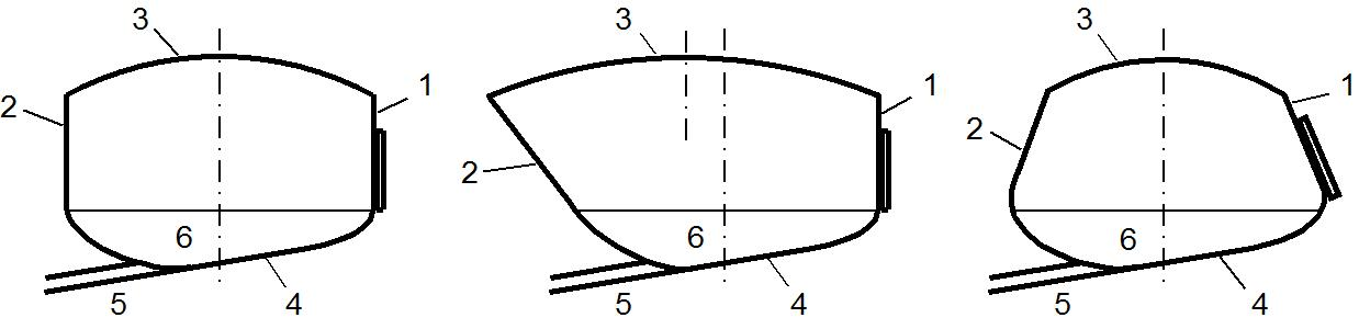 Evolution of the open-hearth furnace walls